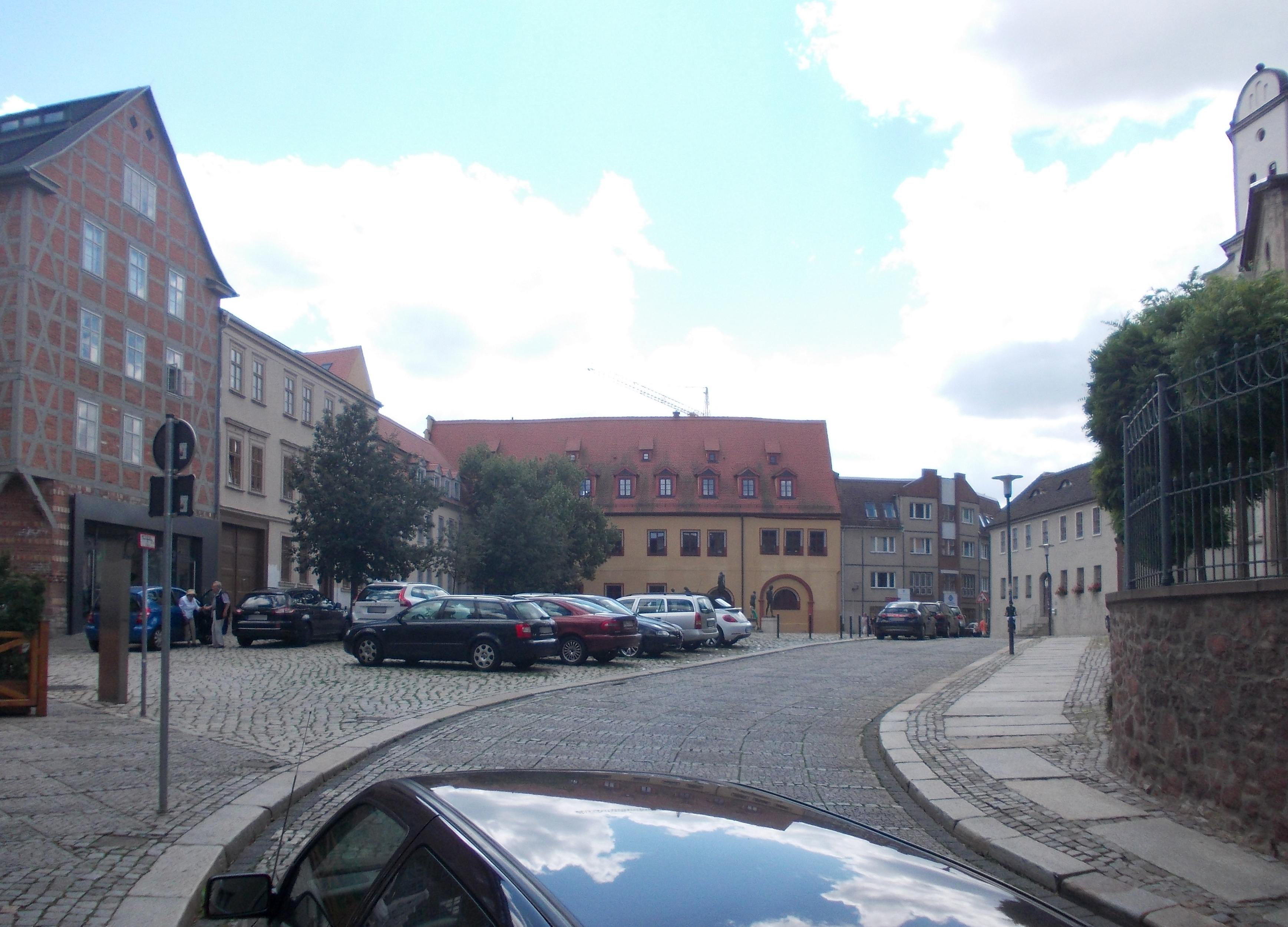 Domplatz in Halle/Saale (Saxony-Anhalt)